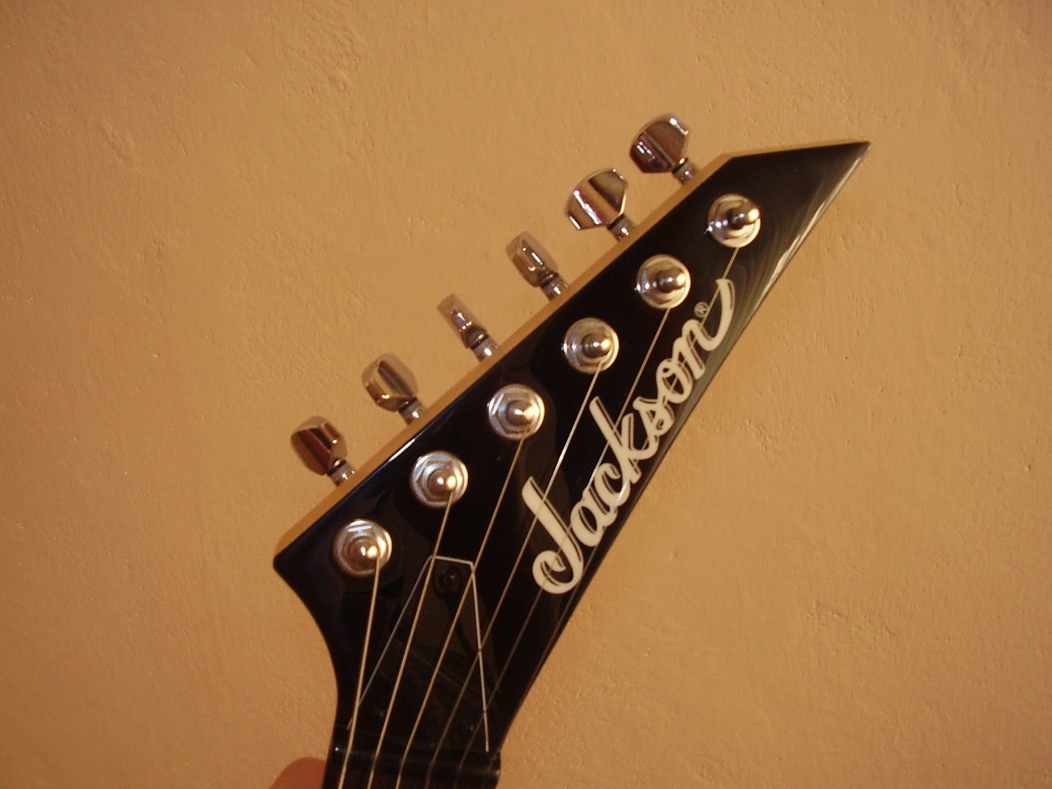 Jackson electric guitar headstock